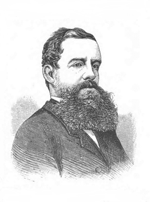 George Robinson, 1st Marquess of Ripon